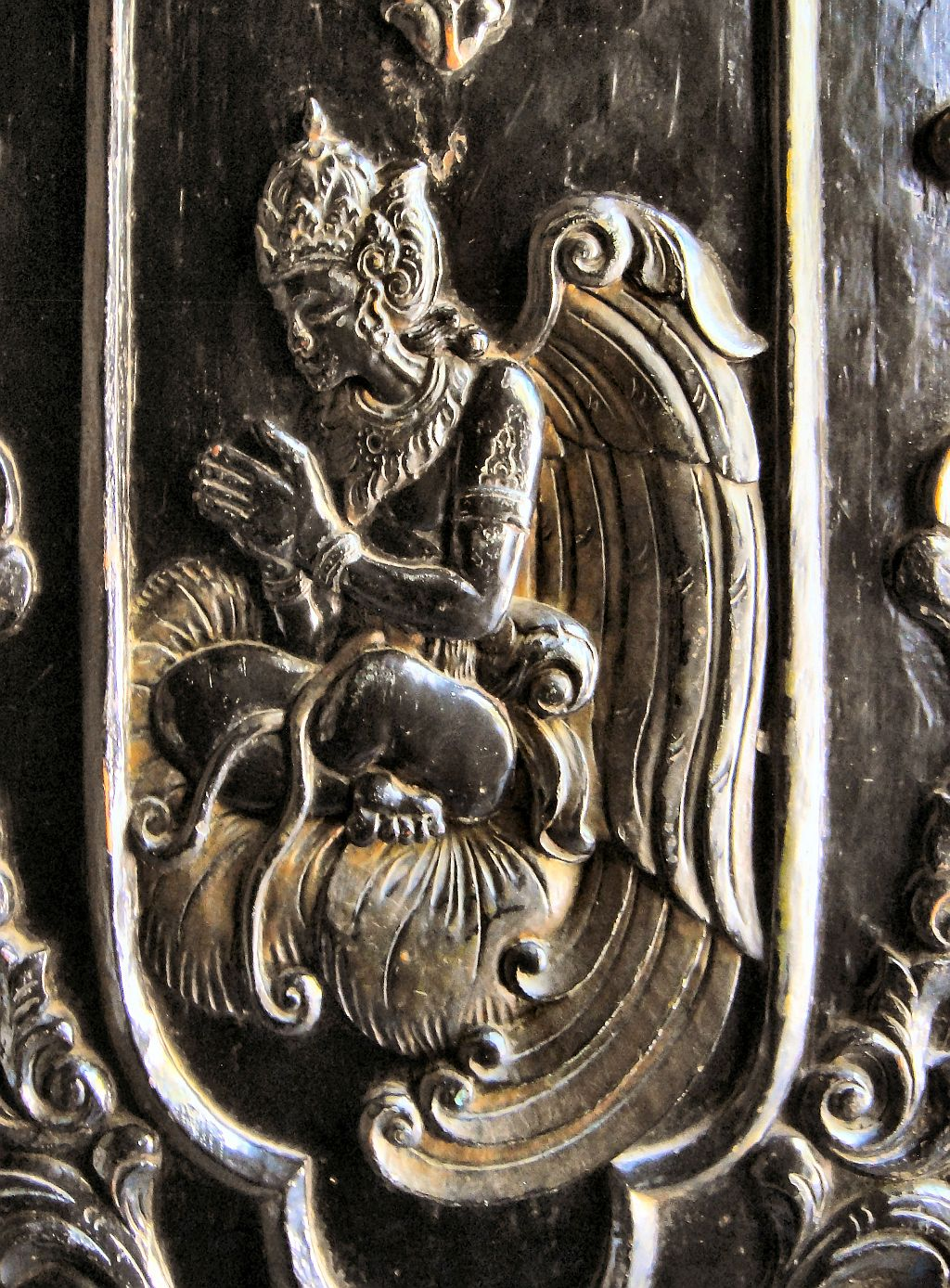 Javanese Angel at Ganjuran, Javanese-Christian art